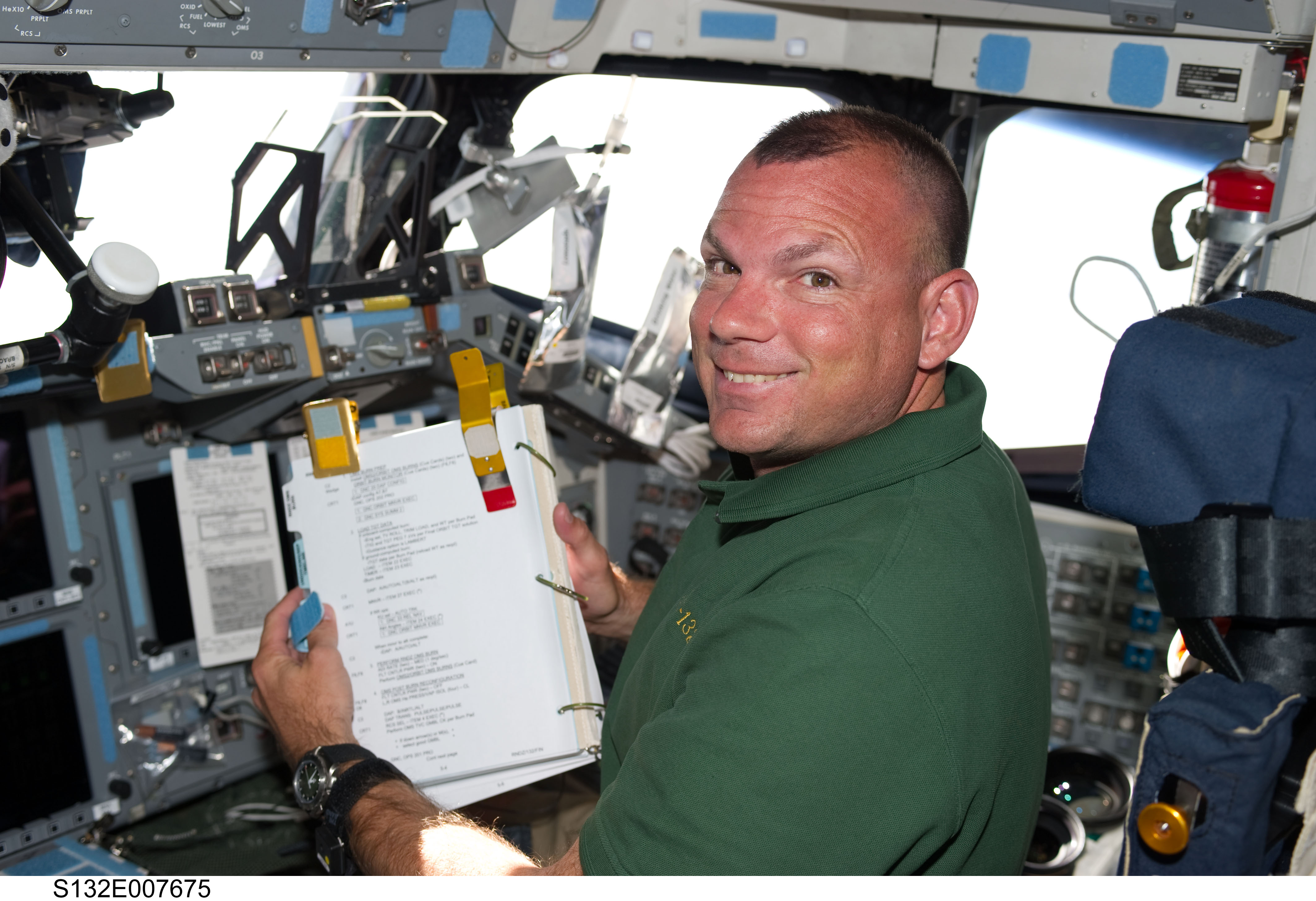 NASA astronaut Tony Antonelli, STS-132 pilot, is pictured at the pilot's station on the forward flight deck of the space shuttle Atlantis during flight day three activities.